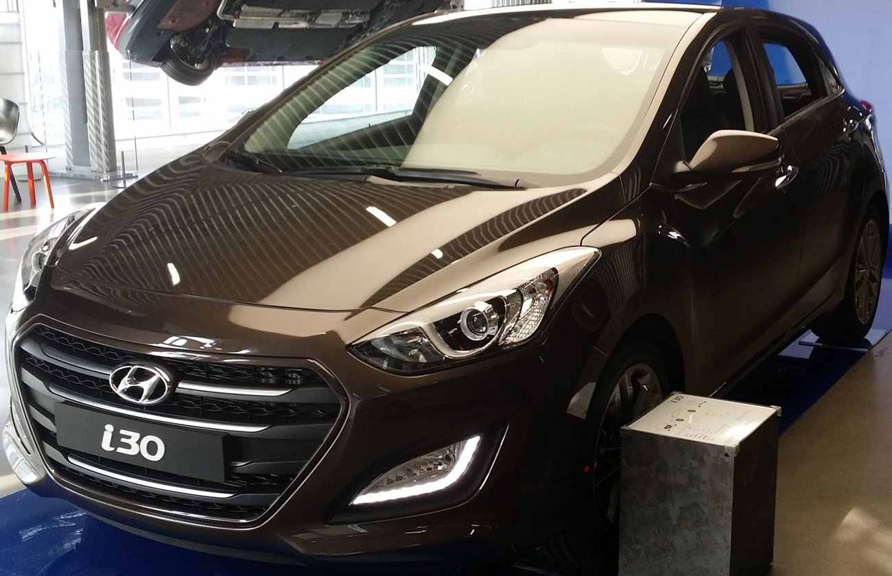 Hyundai The New i30